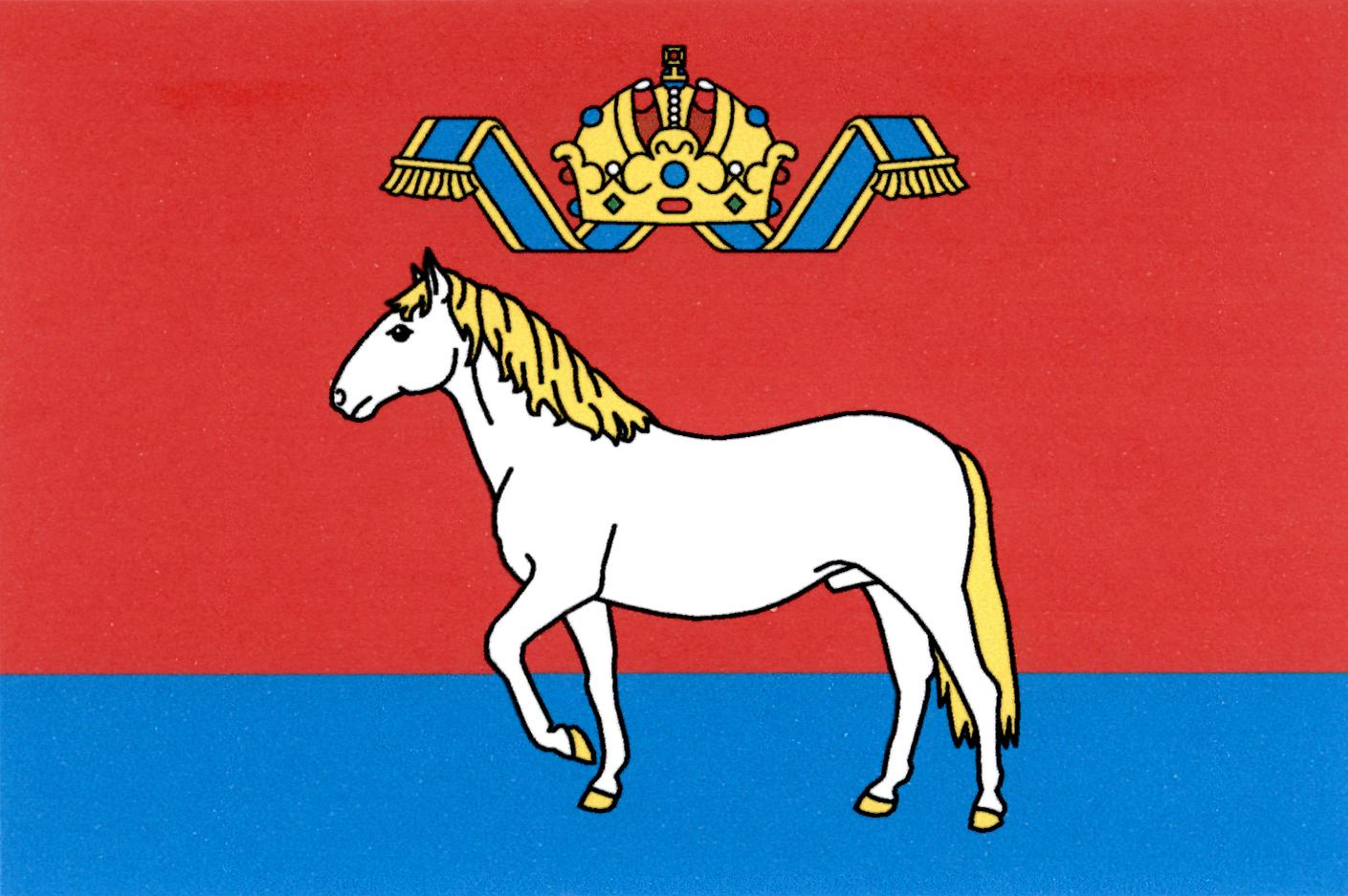 Municipal flag of Kladruby nad Labem village, Parduvbice District, Czech Republic.